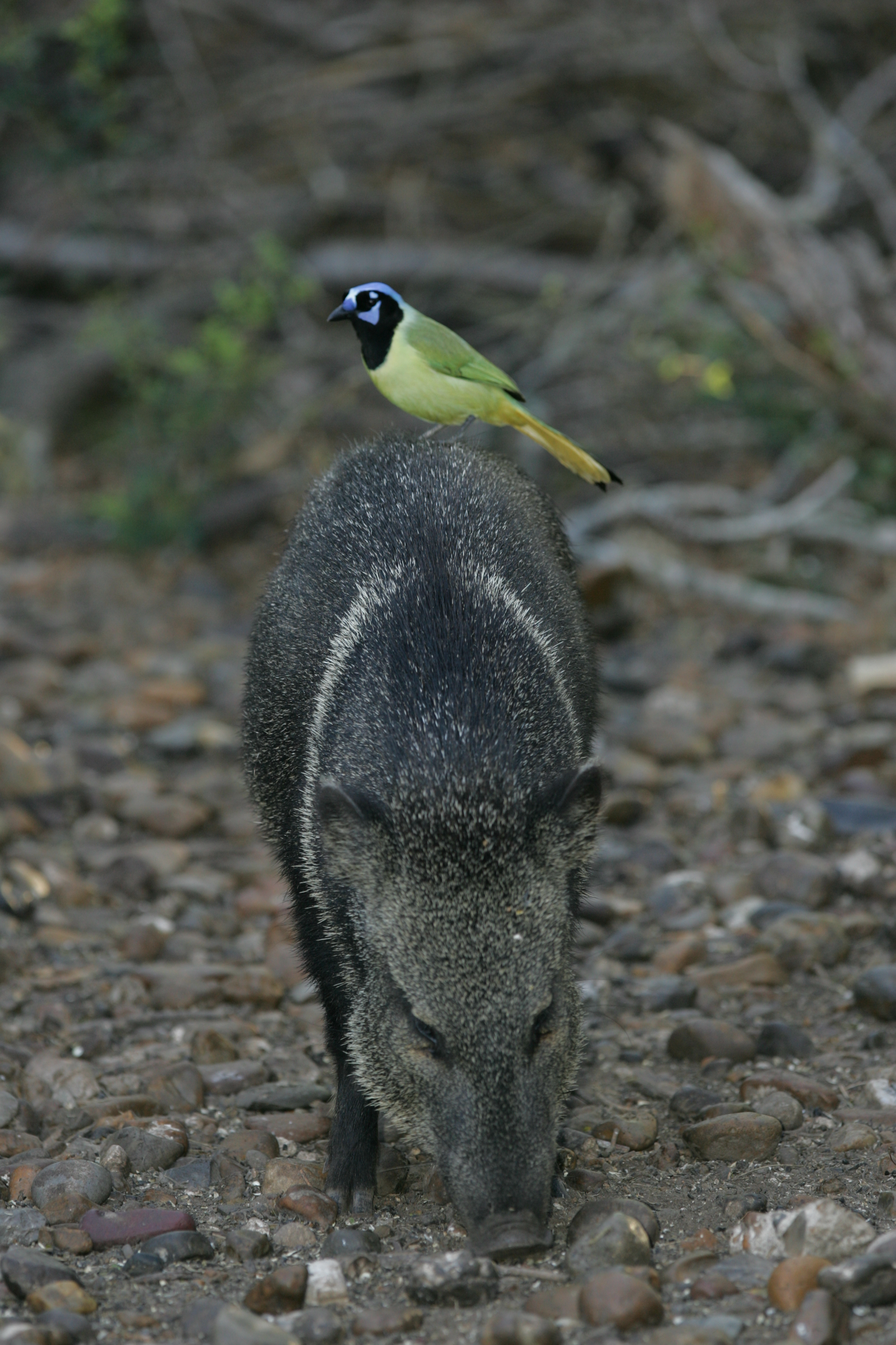 Green Jay Cyanocorax luxuosus on a Collared Peccary Pecari tajacu